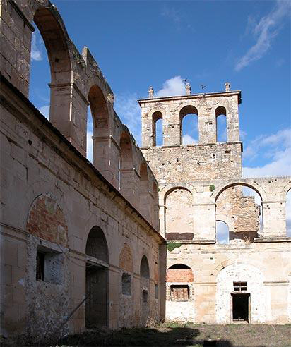 The remaining Spanish ruins of Santa Maria de Ovila, a monastery that was largely disassembled by an agent of William Randolph Hearst in 1931 and shipped to San Francisco, California. Hearst's agent selected the parts Hearst would want, removed them, and left behind these bare walls with no decorative elements, or roof, or floors.